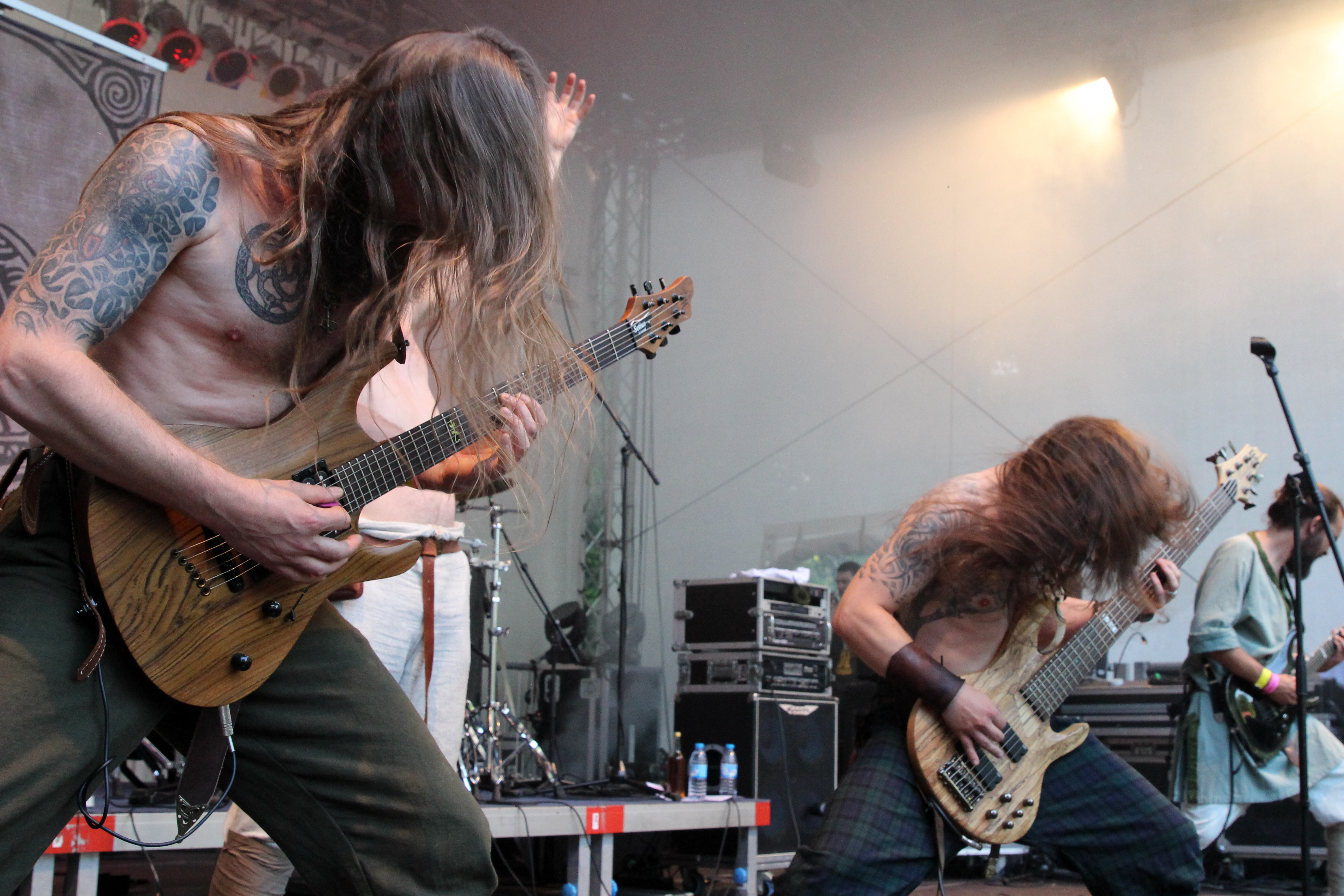 XIV Dark Centuries at the Wave-Gotik-Treffen 2014.